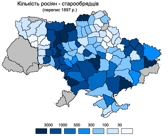 Number of russian-speaking oldbelievers, 1897 census